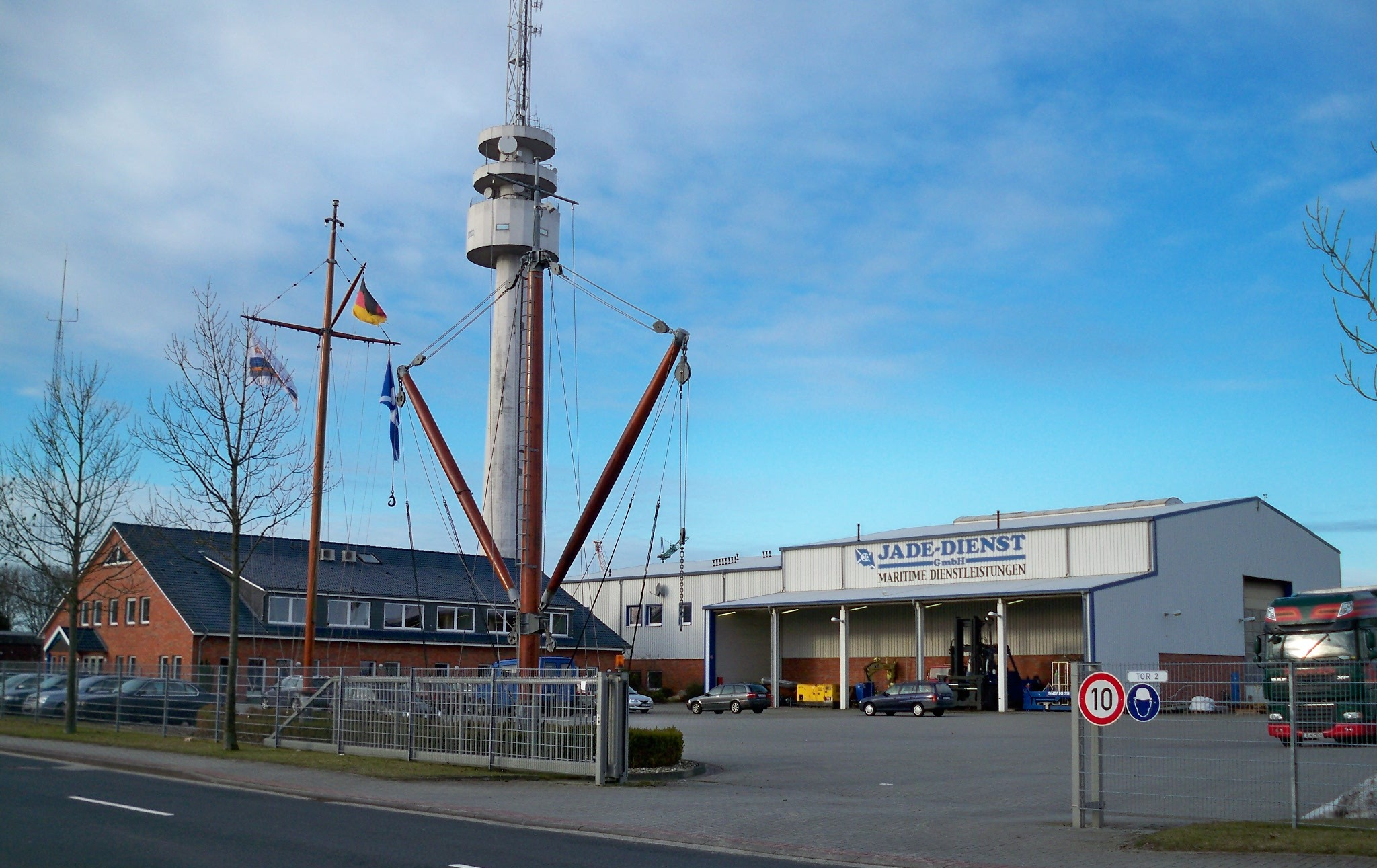 Base of Jade-Dienst, a maritime service company in Wilhelmshaven